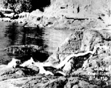 The Fircom Carcass, Vancouver Island, 4 October 1936. Supposed remains of 'Caddy'.